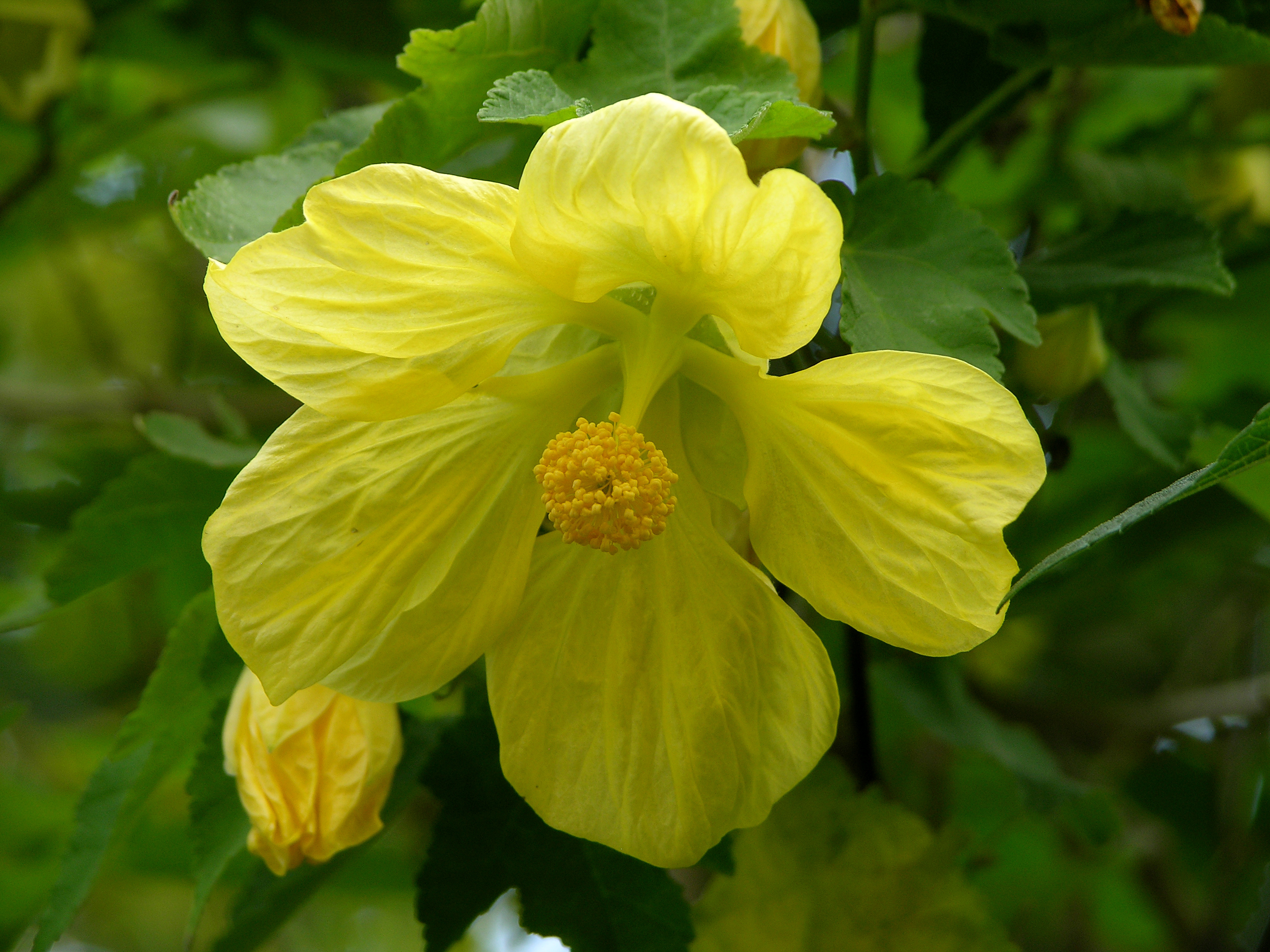 A picture the flower of Abutilon × hybridum 'Moonchimes'. Photo taken at the Chanticleer Garden where it was identified.